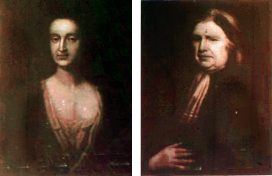 Individual portraits of Etienne de Lancy, known as Stephen Delancey, and his wife Anne van Cortlandt